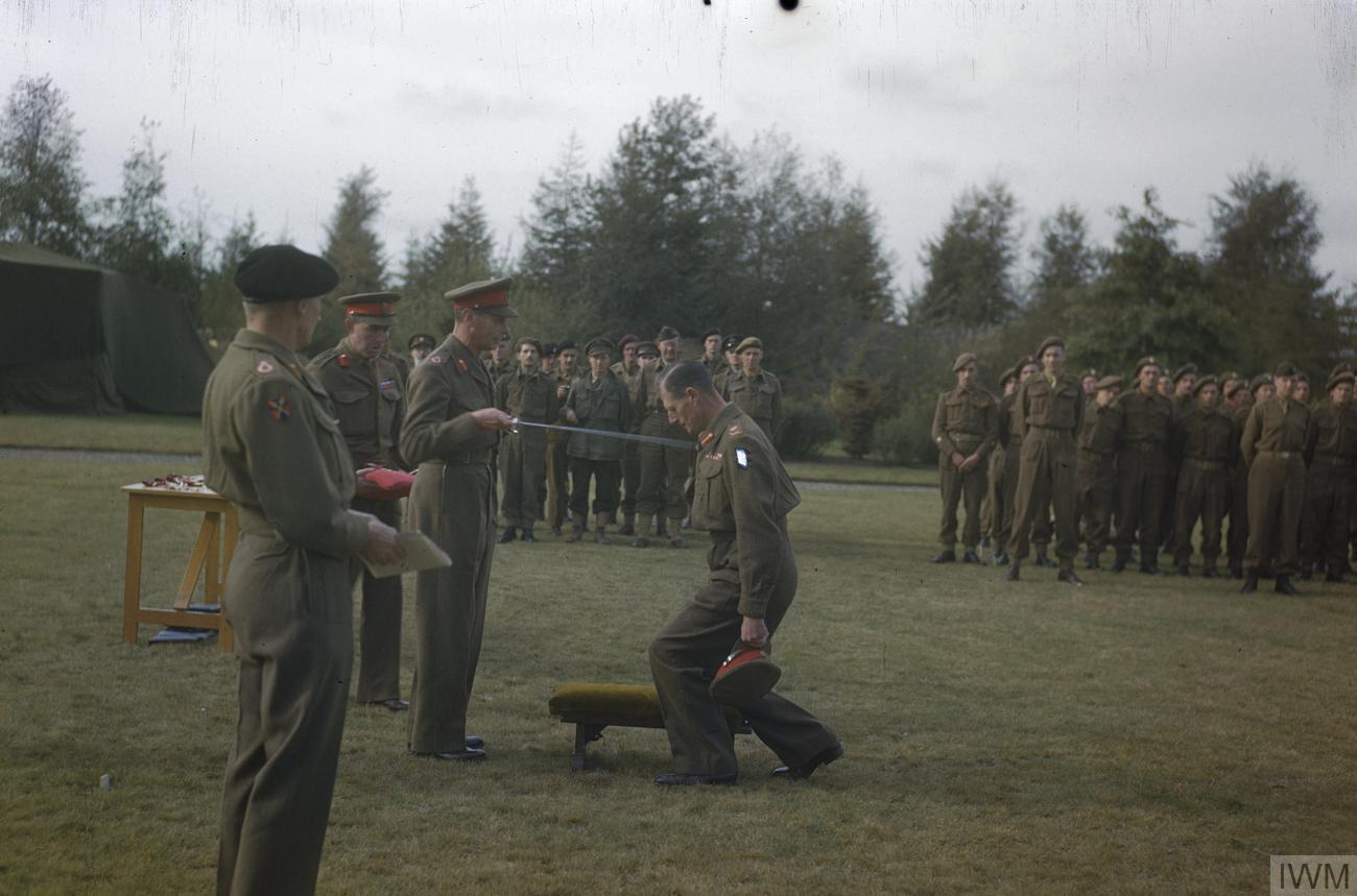 Hm King George Vi With the British Liberation Army in Holland, 15 October 1944 The Commander of 1 Corps, Lieutenant General J T Crocker is made a Knight Commander of the British Empire by HM King George VI during an investiture held at the headquarters of the Commander of 21st Army Group, Field Marshal Sir Bernard Montgomery. Field Marshal Montgomery is standing in the foreground.